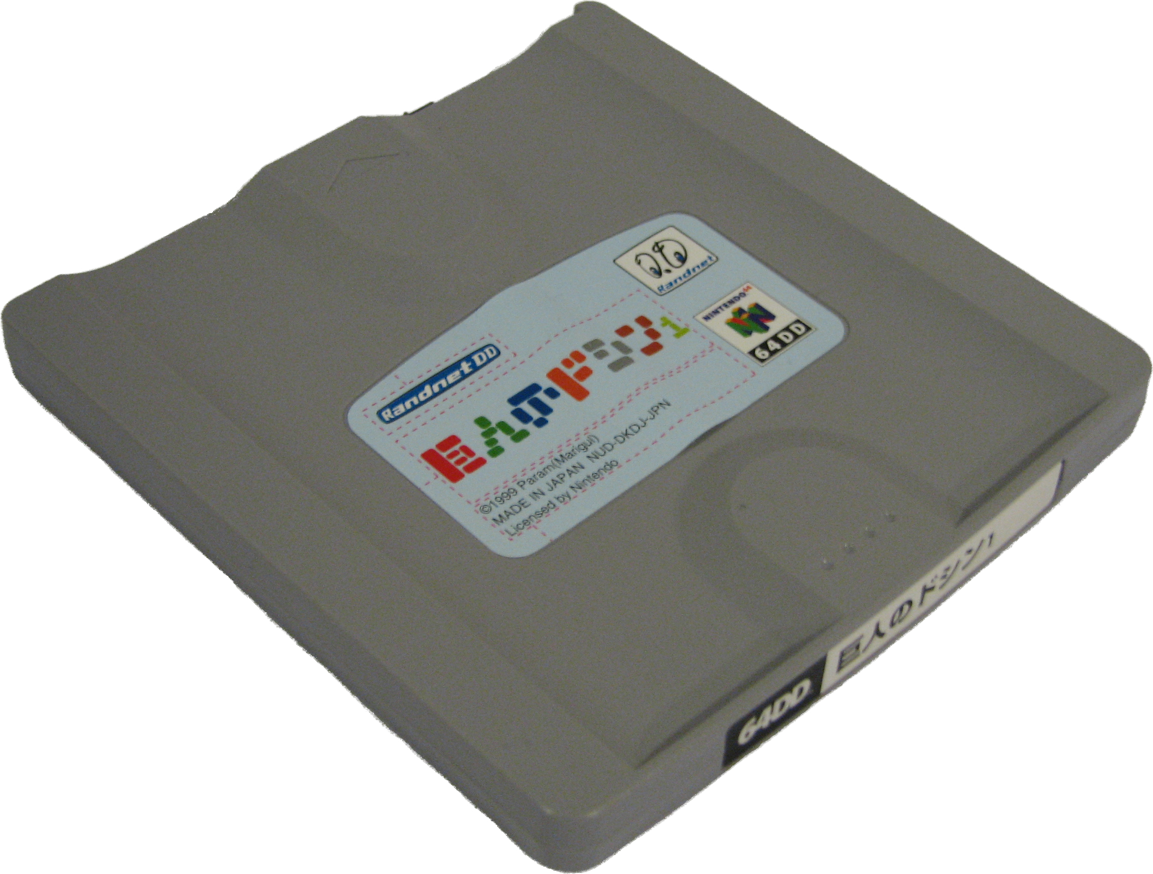 Nintendo 64DD game disk of Doshin the Giant playable only a Nintendo 64DD docked under a japanese Nintendo 64. This game was ported on GameCube with slightly improved graphics.